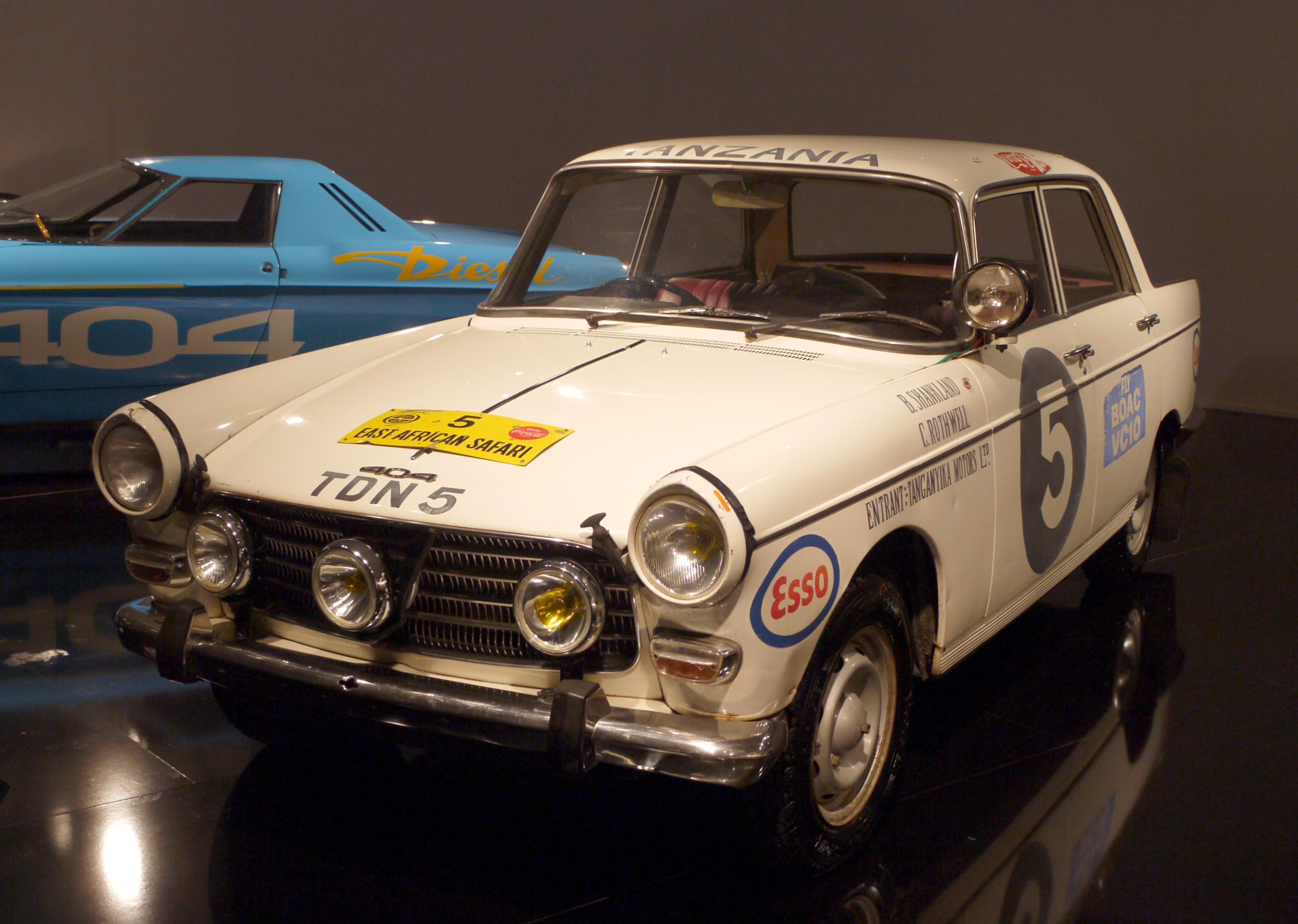 1967 Peugeot 404 East African Safari.